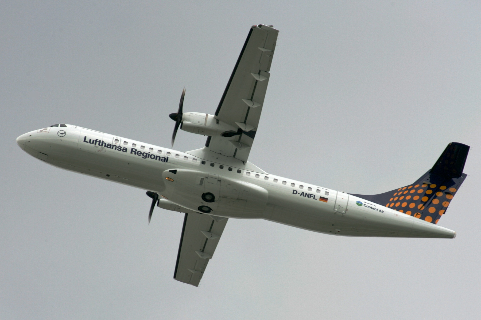 Contact Air D-ANFL ATR 72-500 at Stuttgart Airport.